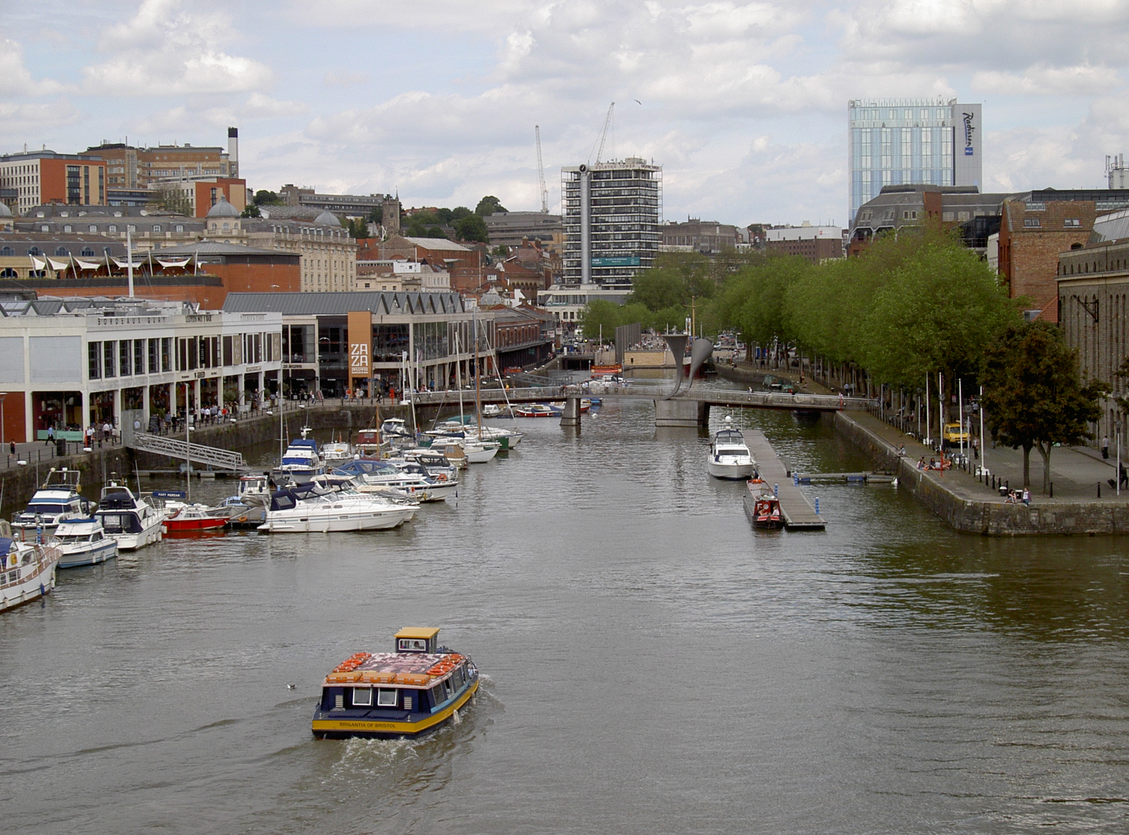 Bristol Ferry Boat Brigantia turns toward the centre of the city, after a journey from the western end of the Floating Harbour. It is entering St Augustine's Reach and is about to pass under Pero's Bridge